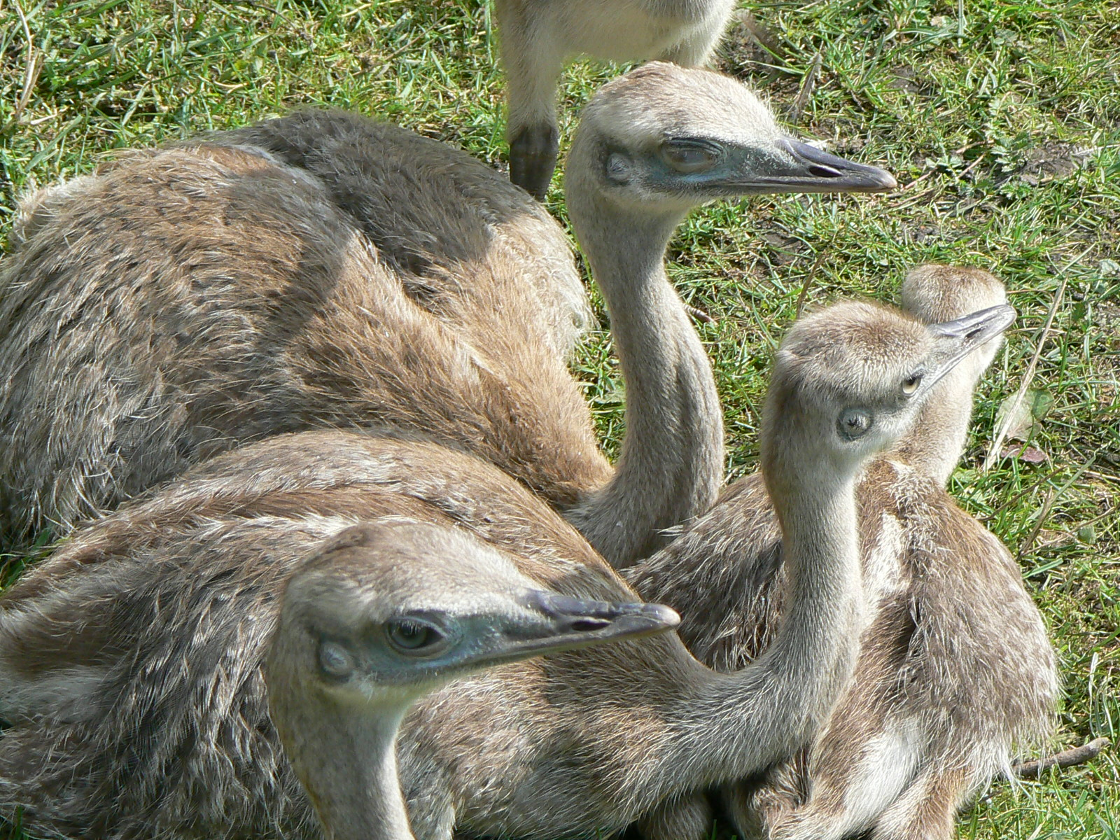 rhea americana / Greater rhea / nandu